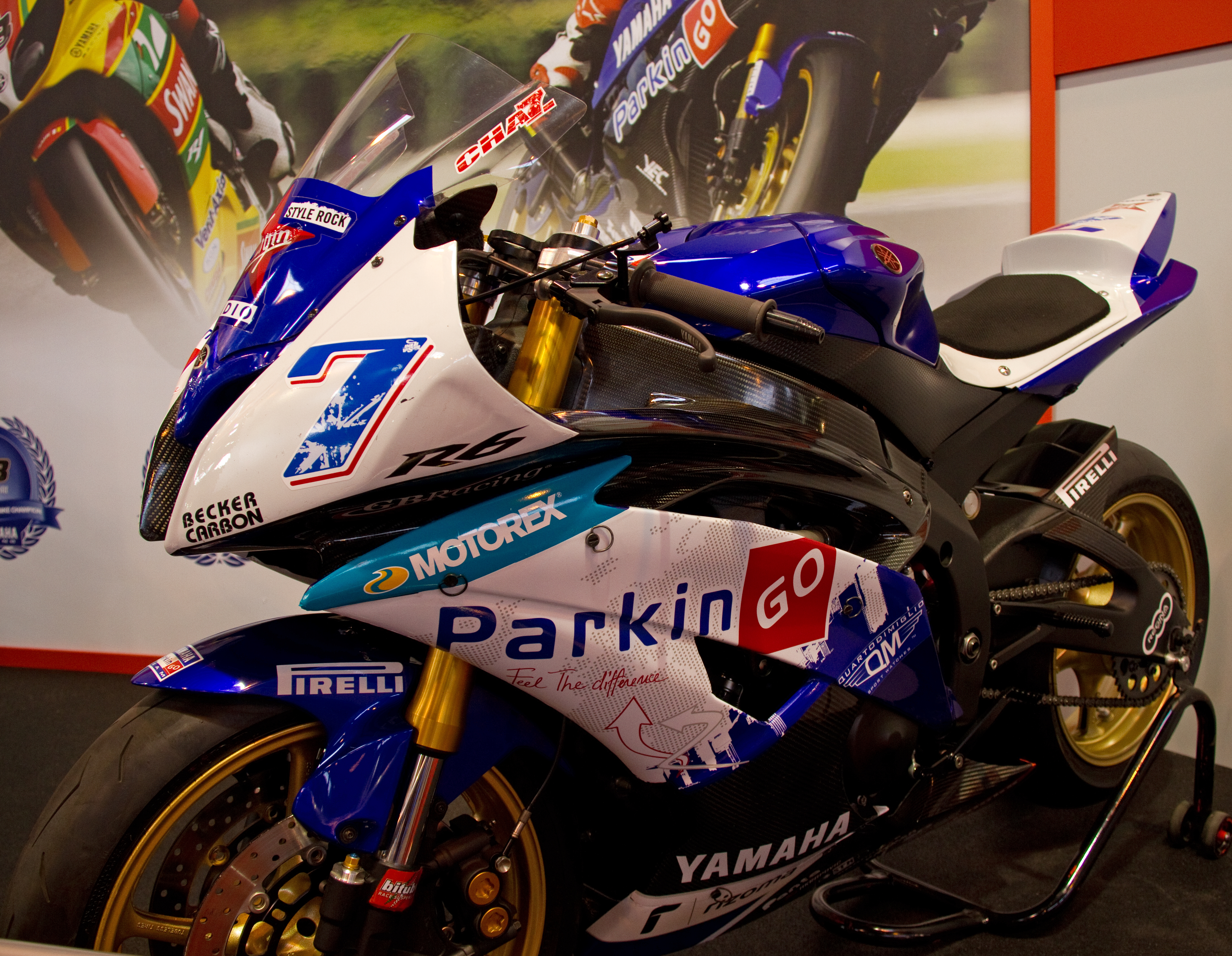 Chaz Davies 2011 World Supersport Yamaha R6